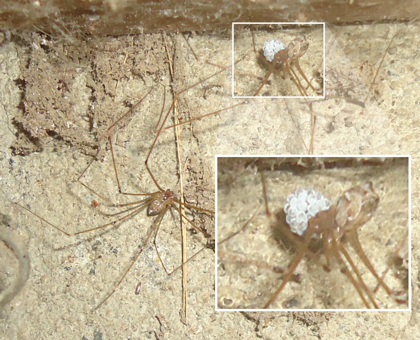 Crossopriza lyoni. The female carrying the egg bundle magnified.